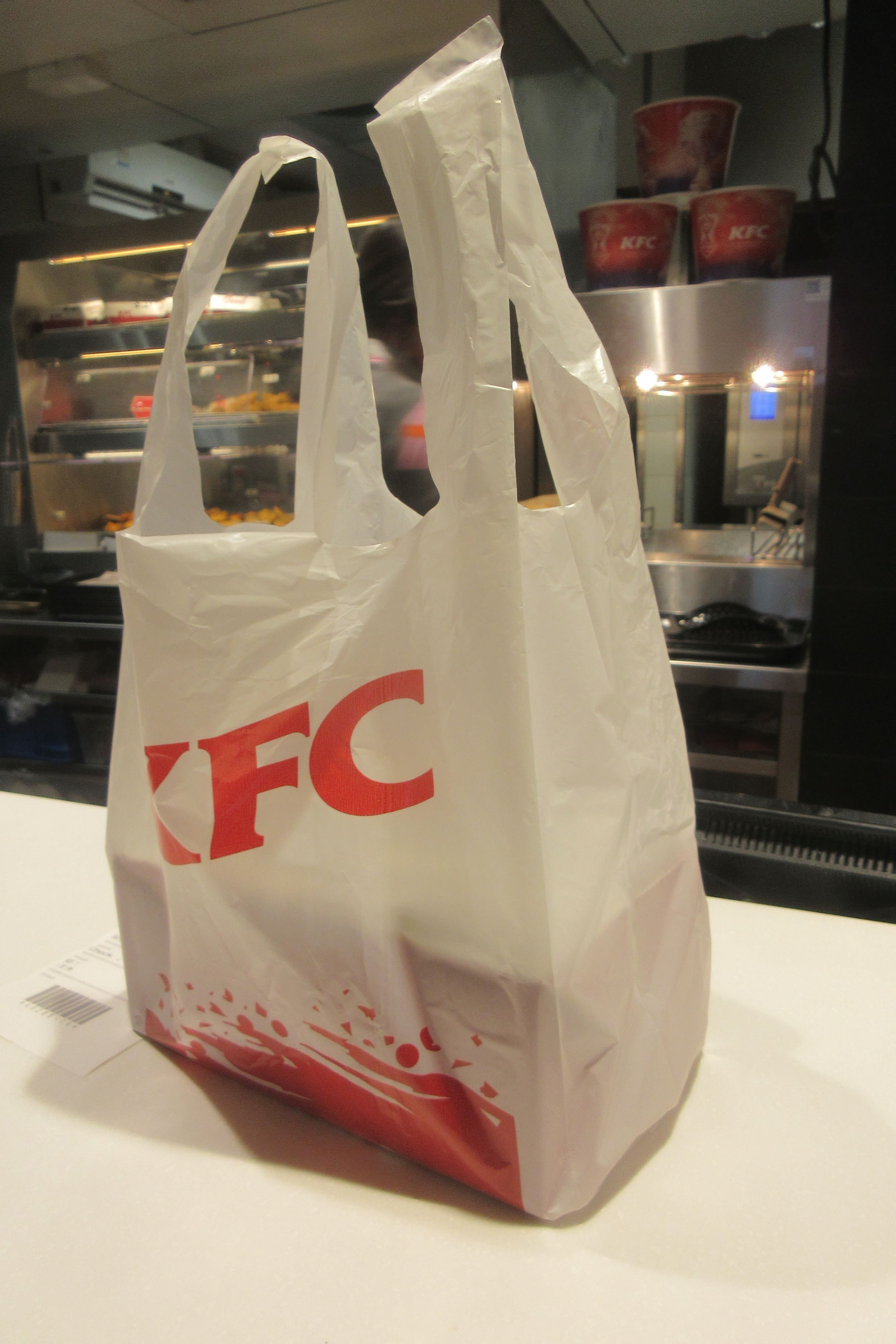 SZ 深圳 Shenzhen 南山區 Nanshan 蛇口 Shekou Walmark store shop 肯德基 KFC Restaurant in Nov 2019